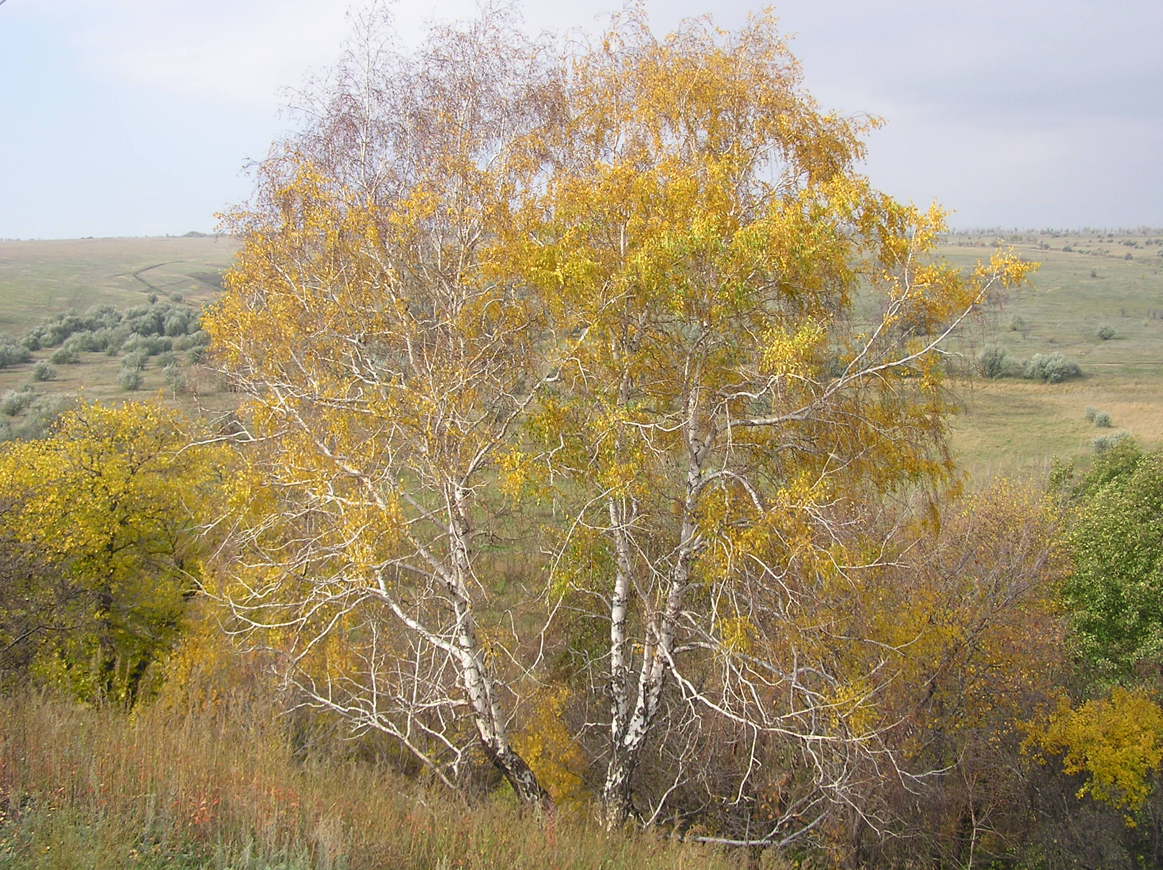 Betula pendula Roth (Silver Birch) in the fall. Habitat: bairak forest, on a nothern slope. Tatishchevsky District, Saratov Oblast, Russia.